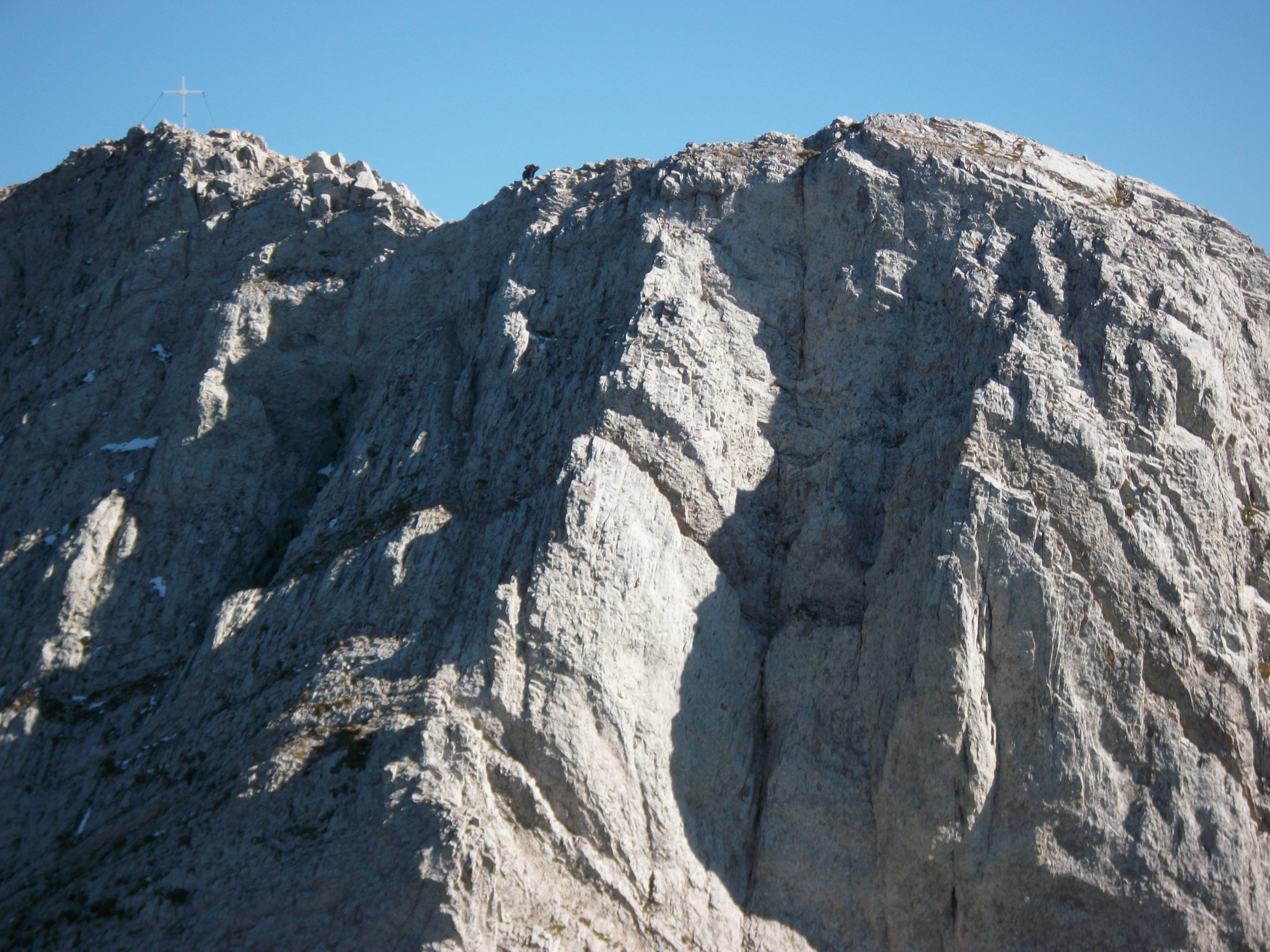 normal climbing-route to altmann